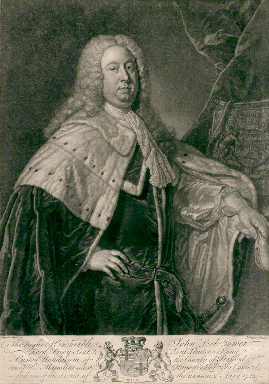 Portrait of John Leveson-Gower, 1st Earl Gower (1694-1754)